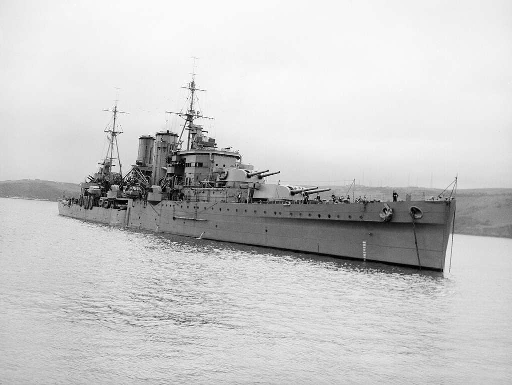 Photograph of British heavy cruiser HMS Exeter after refit.